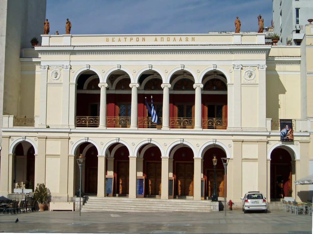 Apollo Municipal Theatre at Patras, Greece in Georgiou I square, a work of the architect Ernst Ziller, built with the contributions of the thriving 19th century commercial class.